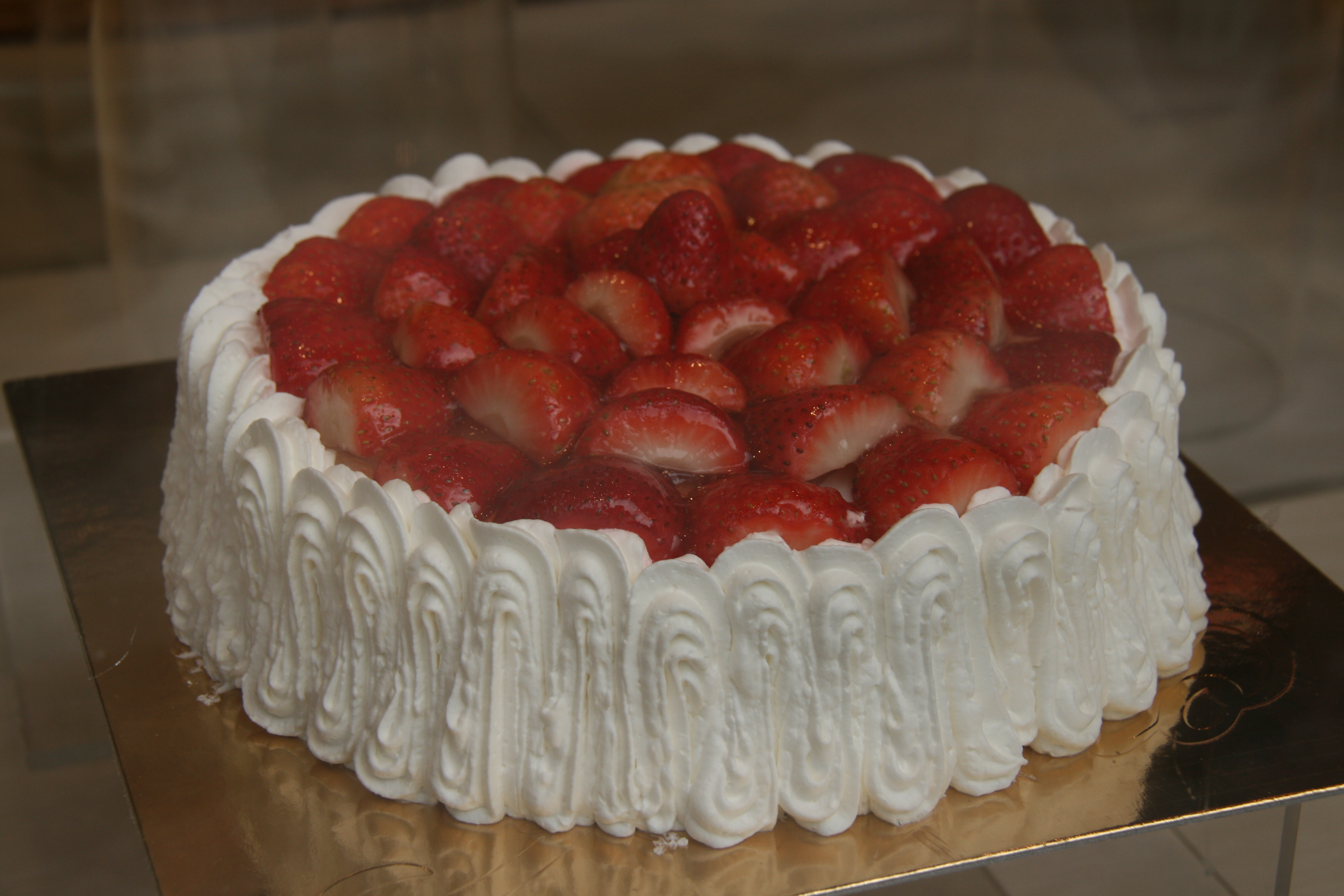 Strawberry tart